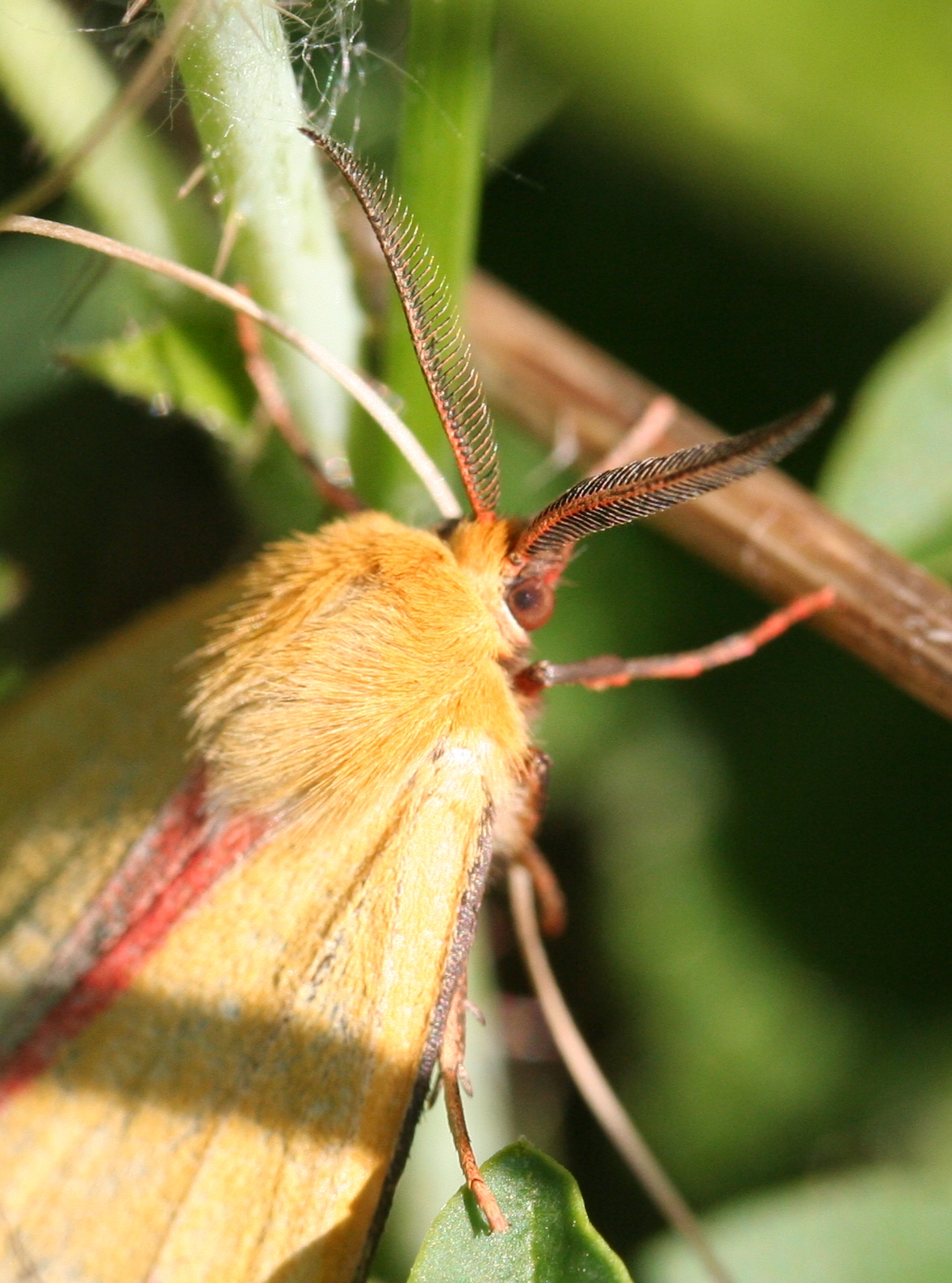 Diacrisia sannio 10 June 2006 IJmuiden, the Netherlands